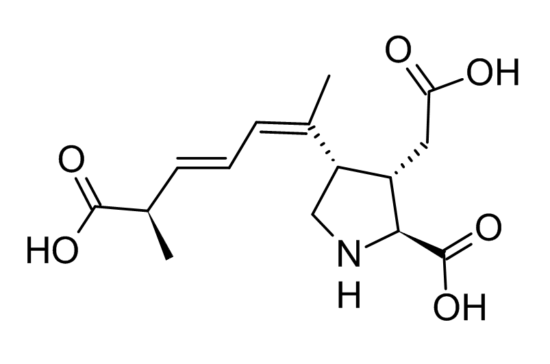 Chemical structure image for Domoic Acid